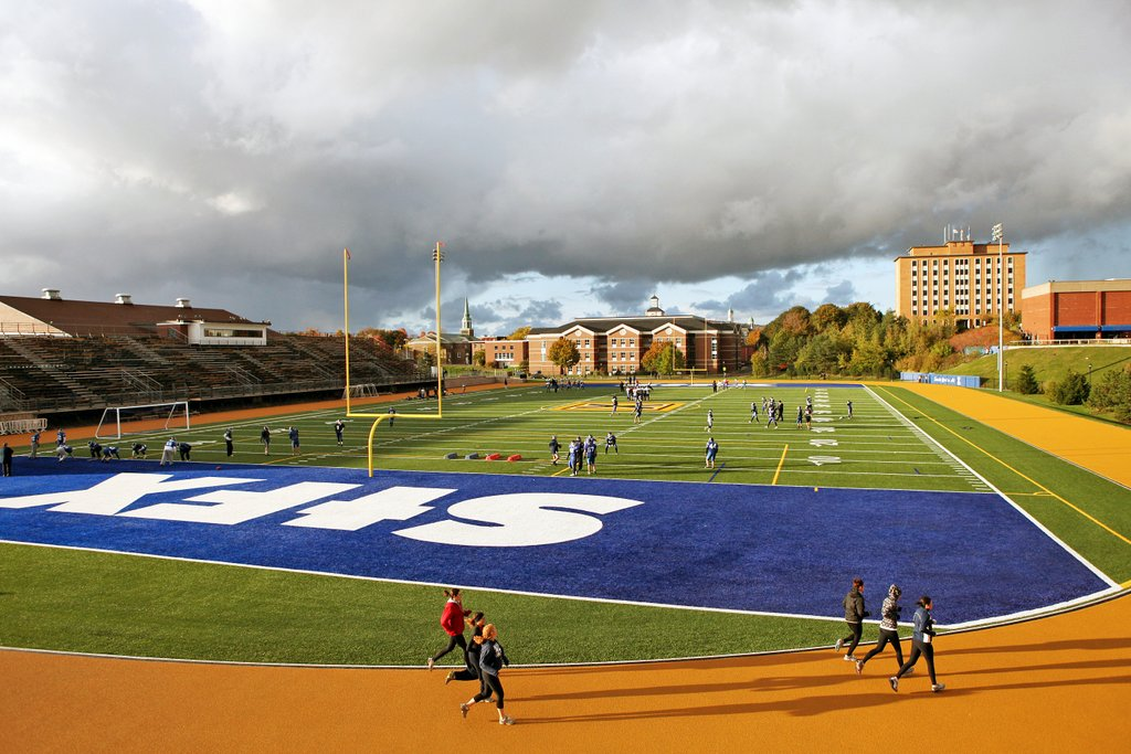 St. Francis Xavier University's all-weather playing field and rubberized track located in Antigonish, Nova Scotia, Canada, featuring an artificial turf, an eight lane, 400 meter track, and light towers. The $2.8 million project was completed in 130 days over the summer of 2009.